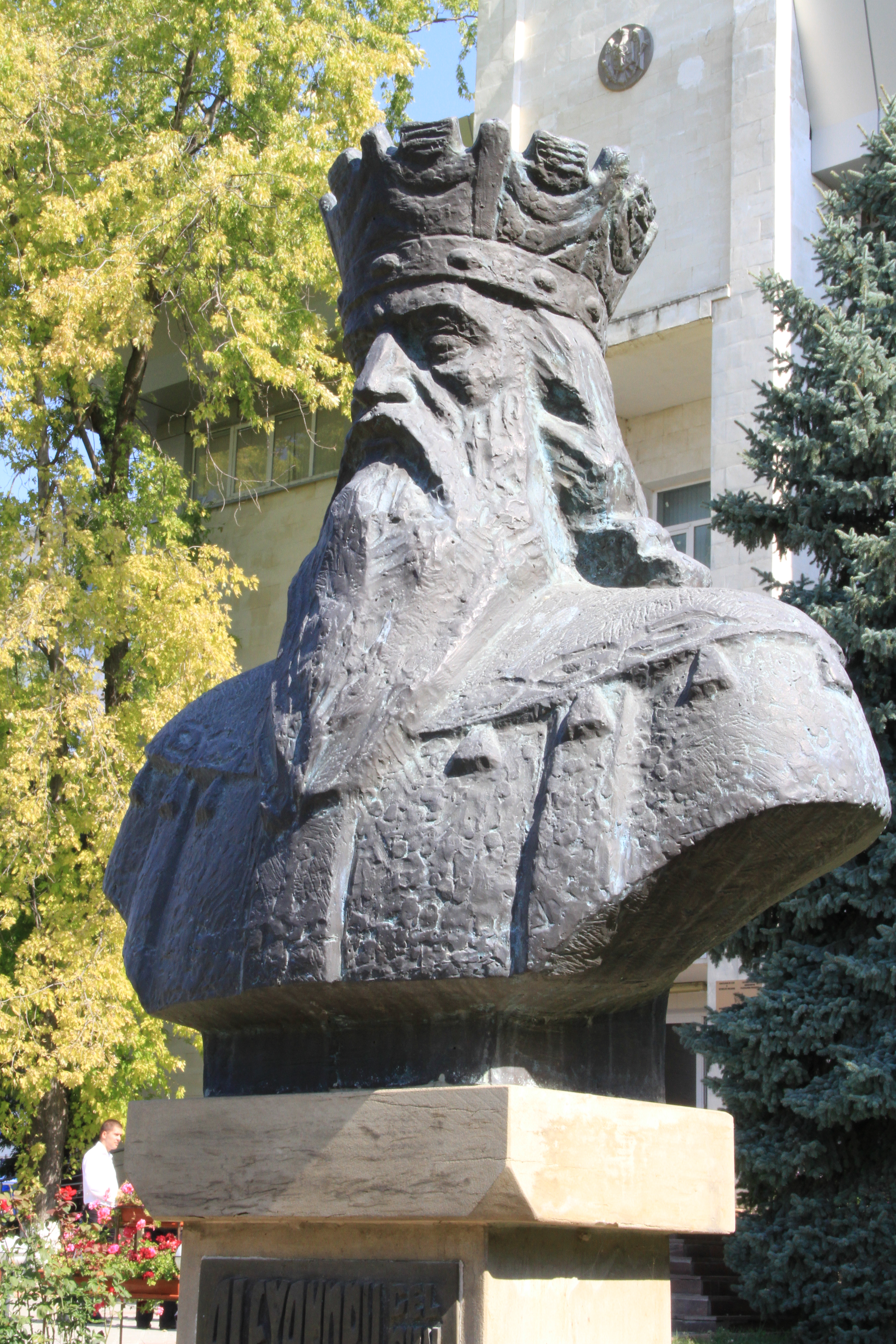 Alexander I of Moldavia, monument (Alexandru cel Bun)